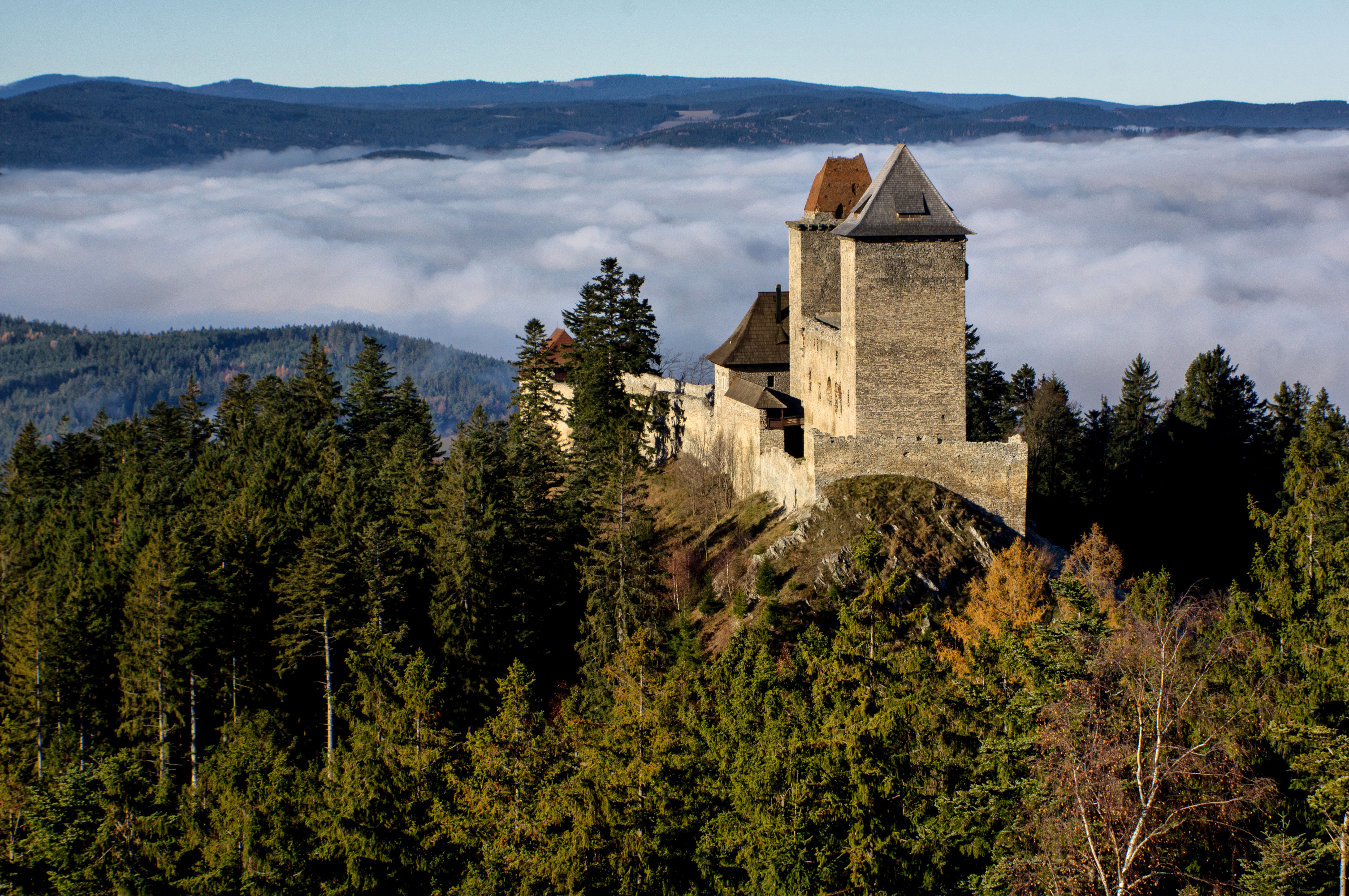 Autumn view of the Kašperk Castle, Bohemian Forest Foothills, southwestern Bohemia.